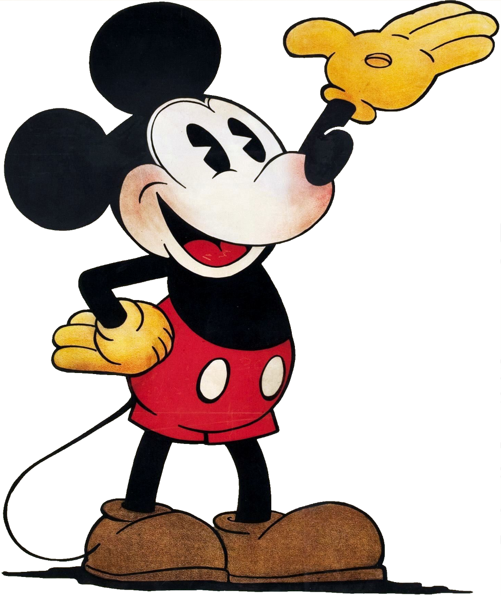 Mickey Mouse